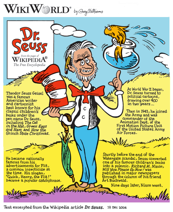 Dr. Seuss cartoon